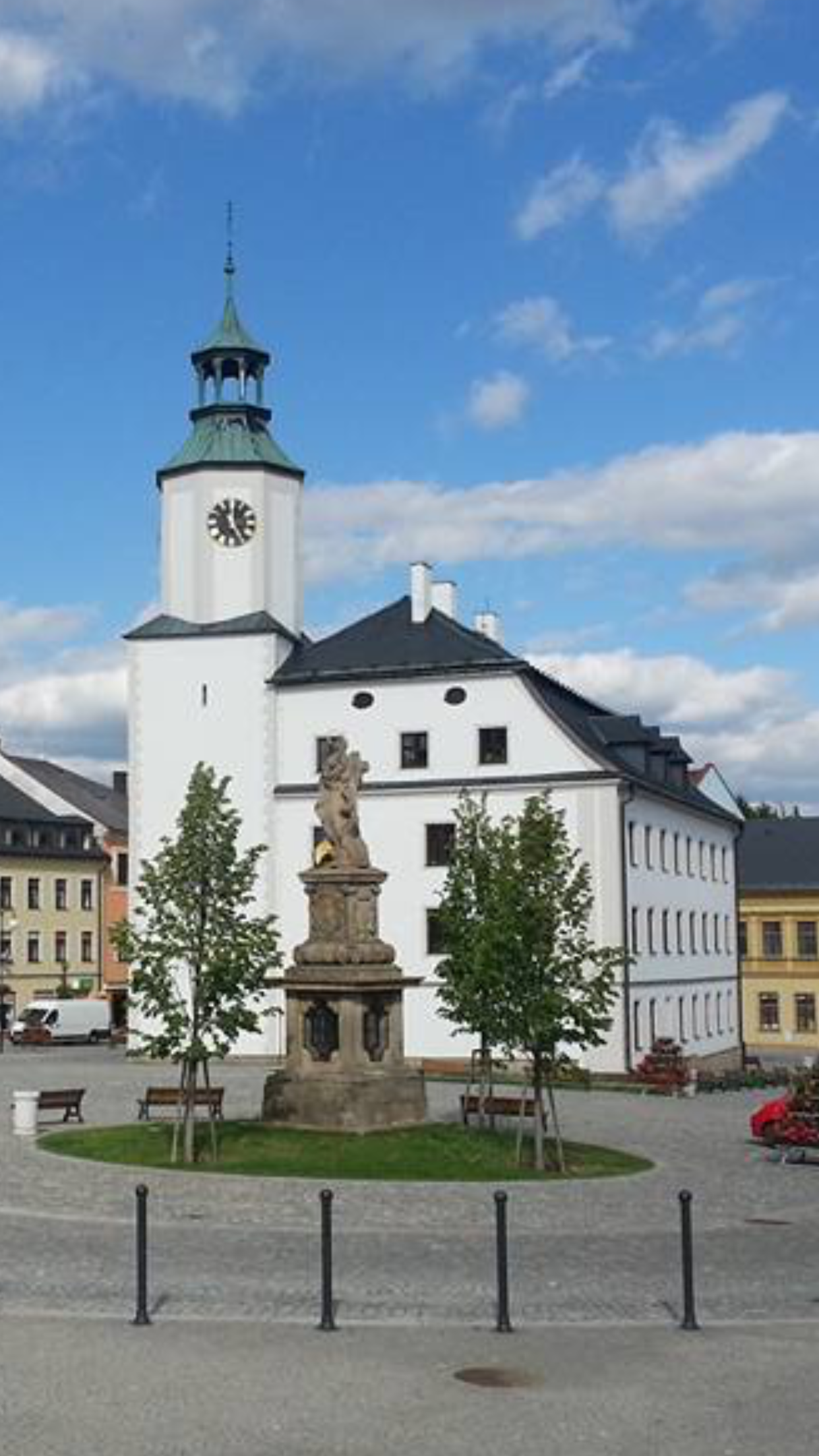 Rýmařov Town Hall located on the main square